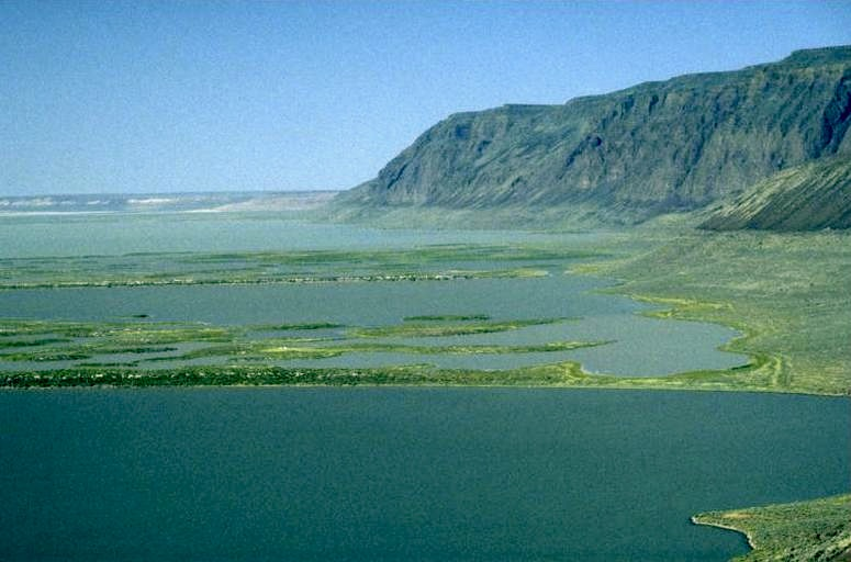 Warner Lakes in Lake County, Oregon with Hart Mountain in the background